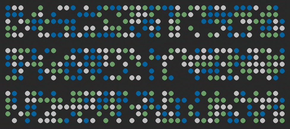 Visualization of nucleotide sequence invented in 2015 by Polish scientist Gregory Podgorniak, above this sequence - TCCAAGAACCTACATGTTCGCGTGTTCAGCGTCCATTTCAGTATTTAGCATAAATTTGAAGAGCCGAATGGCAG TTTTGGGAGGGACACGTTGTTTTAAAAGAAGCCTTCACGAAATTGTGACCGGTCTGGACTGAAAGTACCACGGA TATCTAGCAGAAAACTAAGATTCCGCCAACCTTCTCTGTTTGCCTATGACCAACAGCATCTCAGGGT CCGGTATGAATTCTCCGCGCAATAAGCCATCTCCCTACCGCATTGCATCAAAGCATTTCACAGCAGTCCAGCCC CGAGGTTCAGGGTCTCGGAGCTTCTGTCGACAGTAACAACCGGGTCGTGCCCGCCATCAATCGGTATCTTAAAT AAATAGAAATCTTTAGAGGCCGGTGGTAATACAGTTAGATCGACATAGTAAATAGGCTCAGAACTA CTACGTATAAGGCGCTCTGATTGACGAAATGAGAACTAGAGCAGTACCGGGGAGGTCTTGTTAACTACGTTATA GGGAGCGCCCCTGCATTAACCCCCCCTGCGAGCTGTCATAGAAGCCCAATACGTGGACGTACCAATGAAGAGTA ACGACTCTAGTAGCGTCATGTACCACATACCCGTACTCAGACACACACGGGTACGCGATTGAGCACG